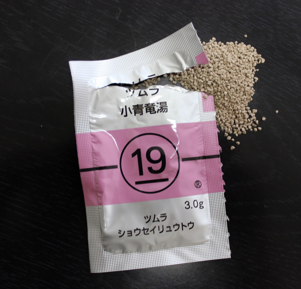 Chinese medicine whose name is Syouseiryutou